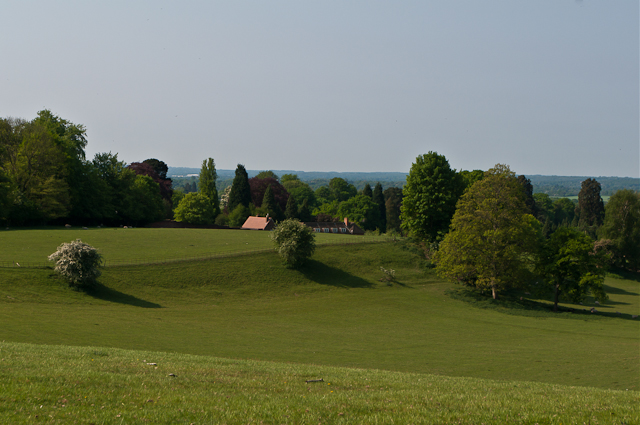 Sandhills